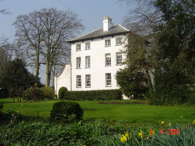 Norman House, Norman Cross. Main house for the Prisoner of War Camp 1797 to 1814.